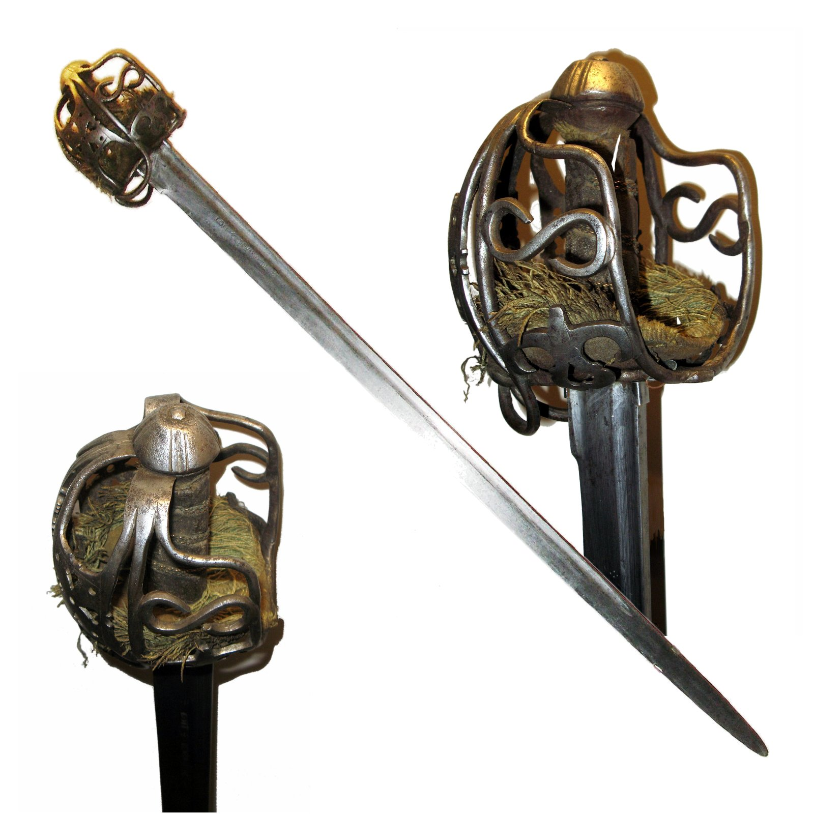 Scottish broadsword (Sword depicted is actually of the "claidheamh cuil"or "back-sword" type).